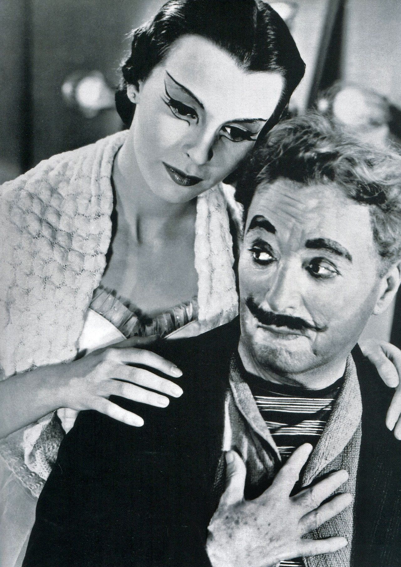 Publicity photo of Charlie Chaplin and Claire Bloom in Limelight.